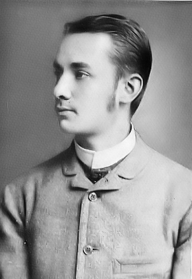 Portrait of Gustav Meyrink (youth)